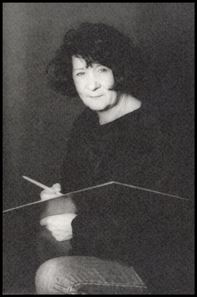 Olga Gimeno Taked in photo by his daughter Flore.